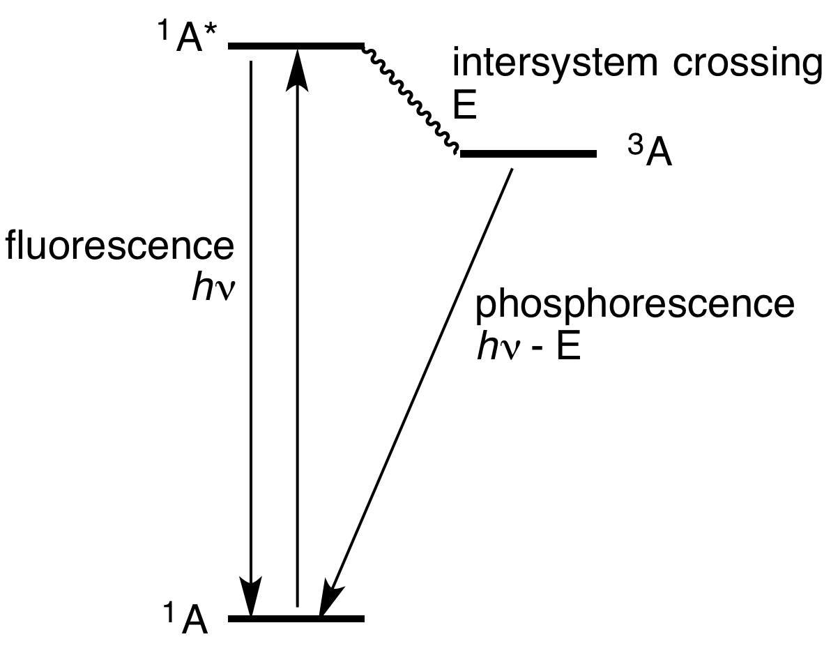 Simplified Jablonski Diagram